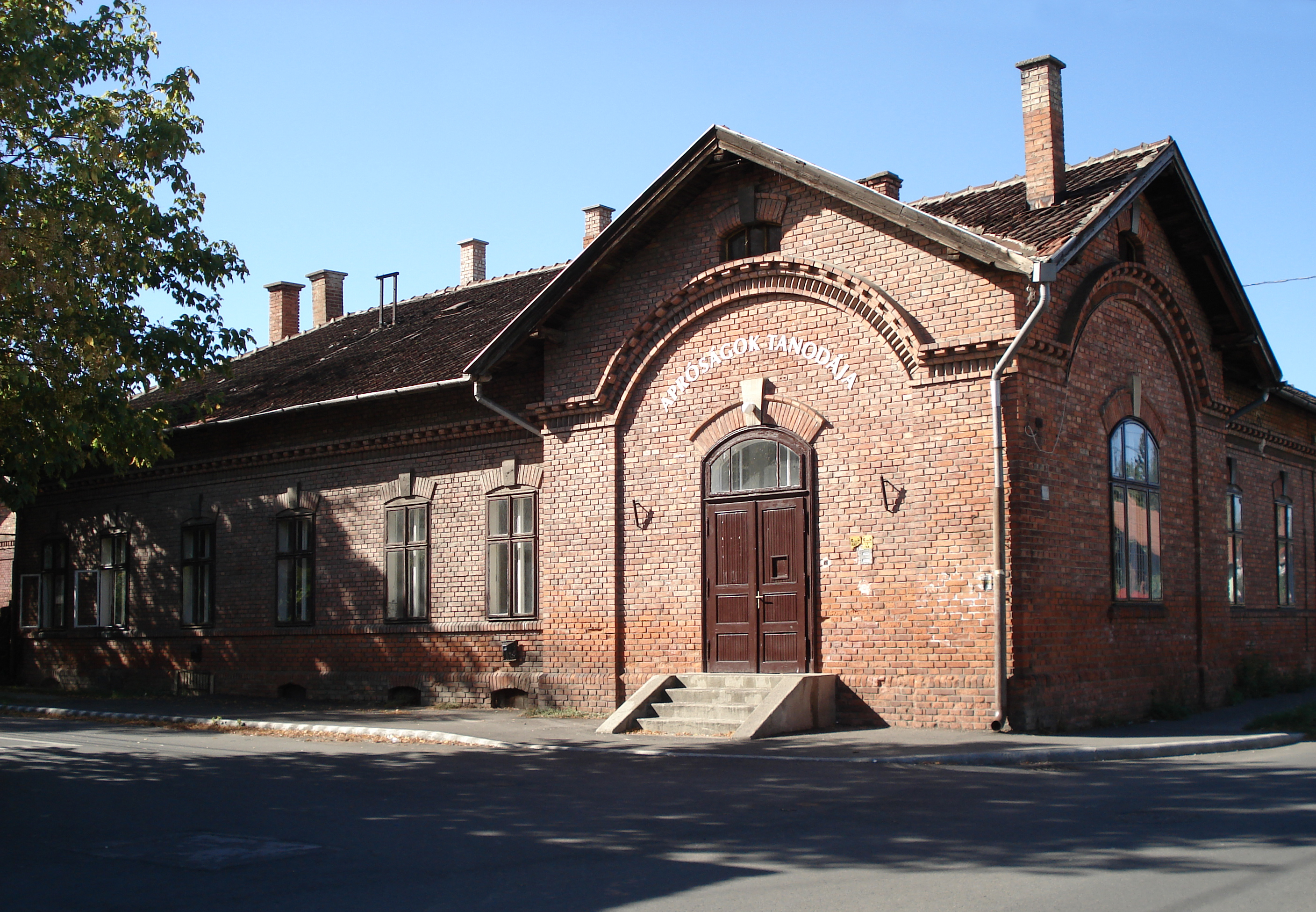 Old pharmacy, Corner of Lónyay and Ballagi streets, Miskolc, Diósgyőr-Vasgyár, Hungary